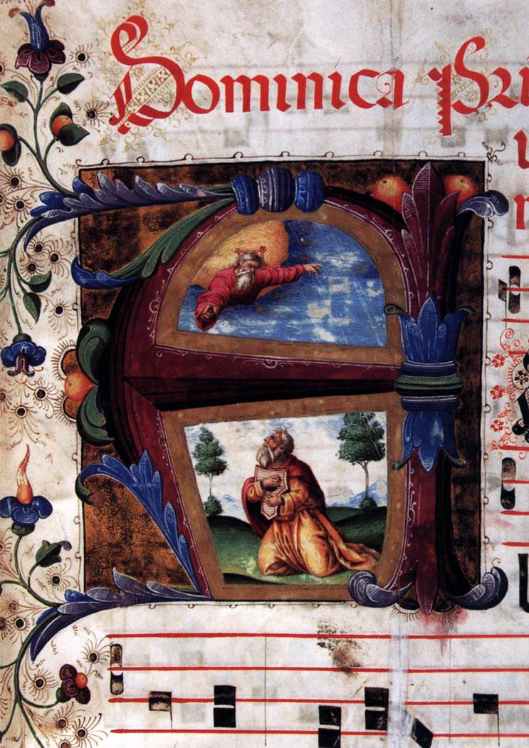 Illumination by Eufrasia Burlamacchi, from Liber Missarum de Tempore a Cena Domini usque ad Adventum